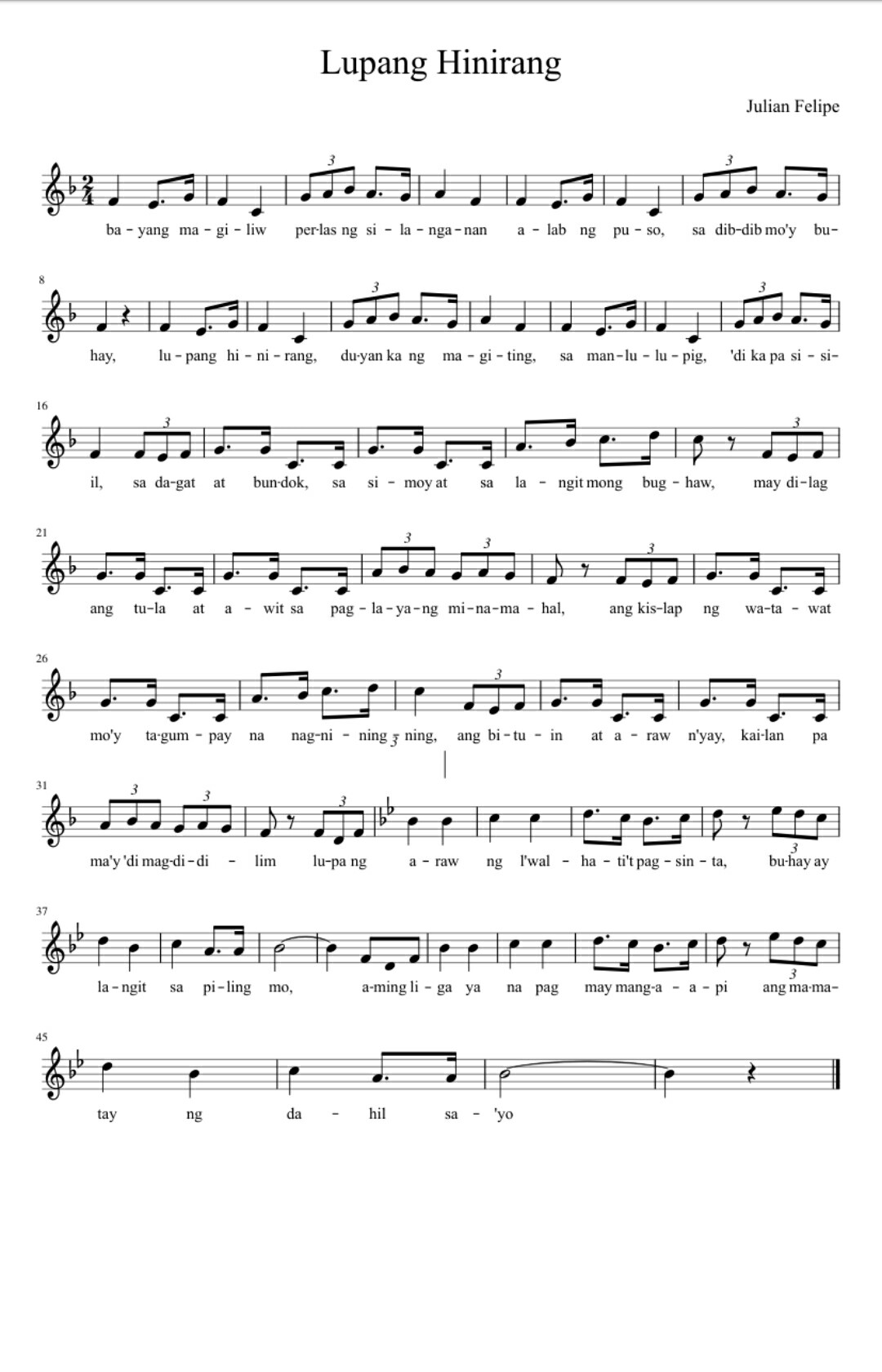 sheet music of Himno Nacional Filipina